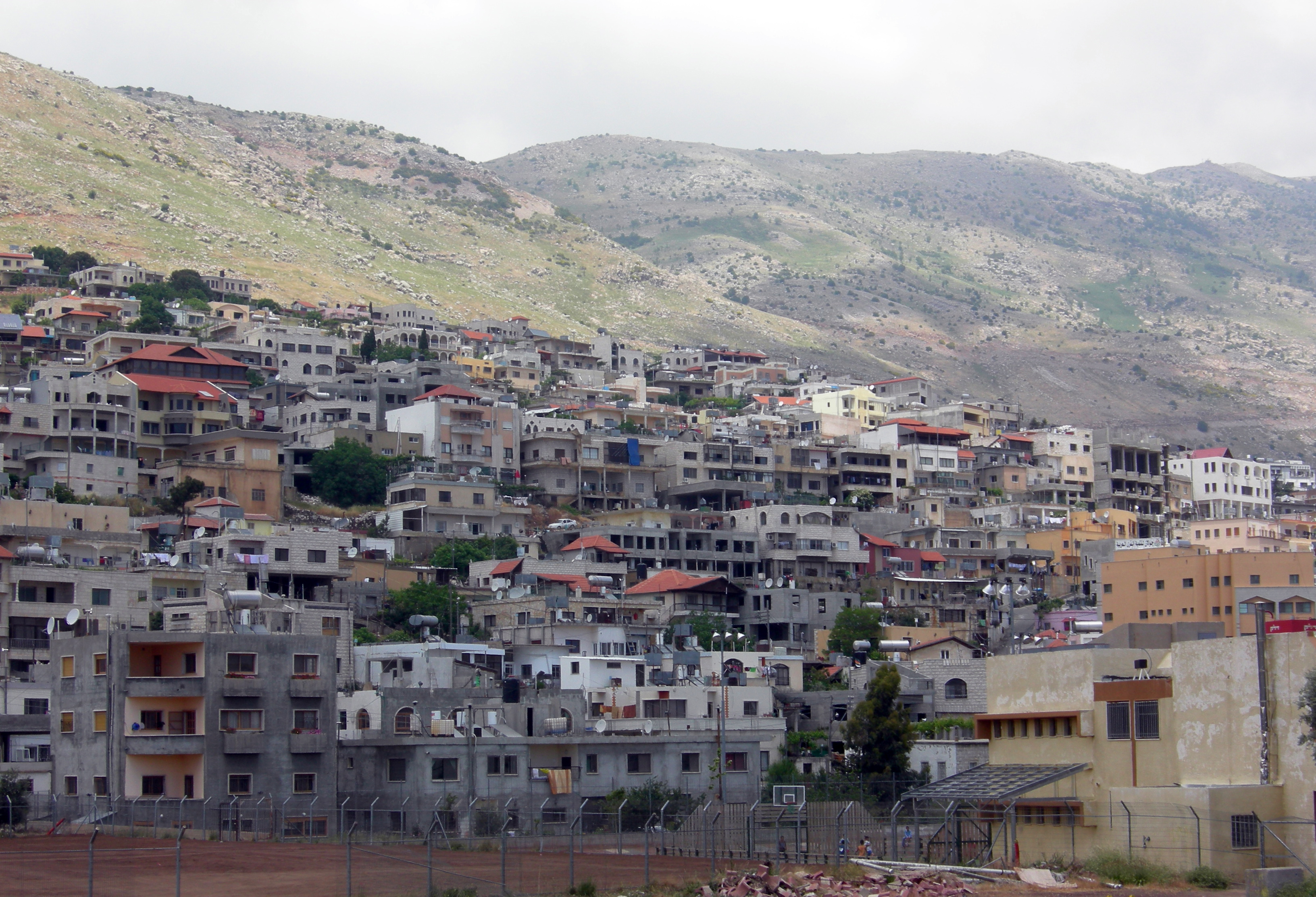 Majdal Shams, Golan Heights, in May 2009.